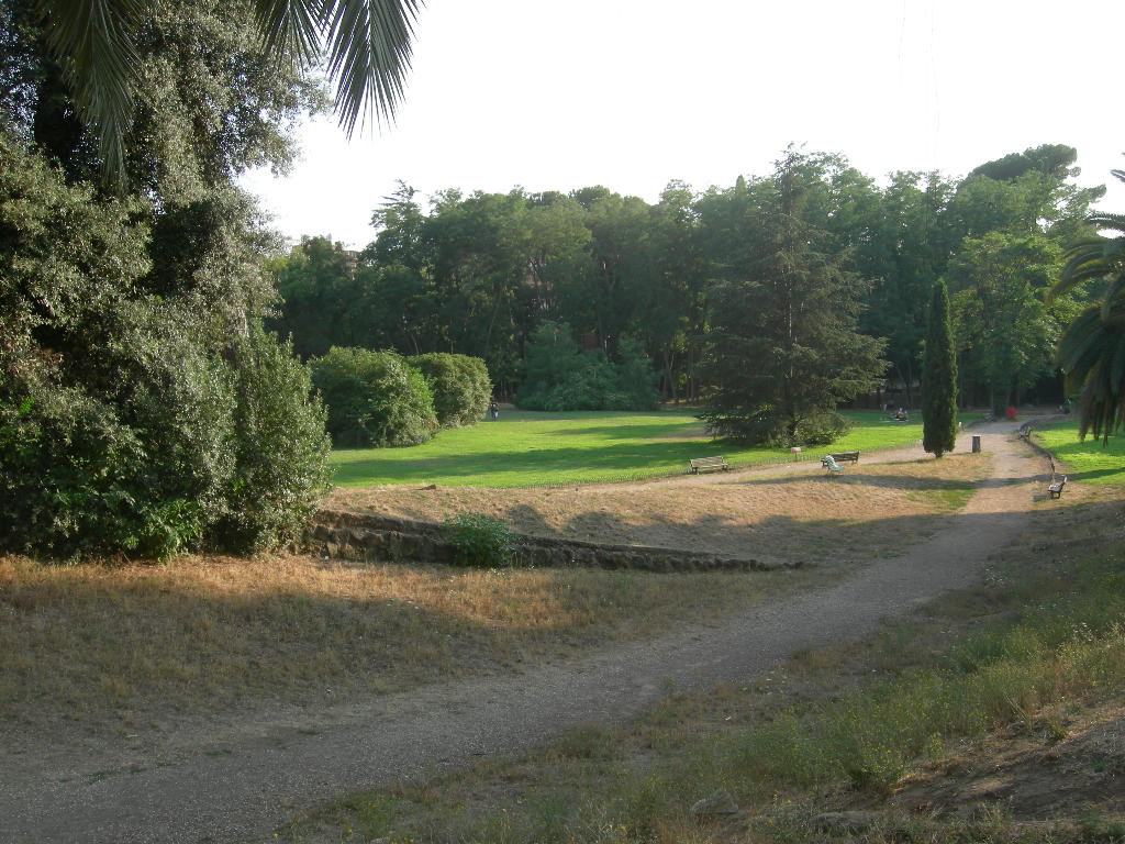 The garden of Villa Torlonia in Rome.